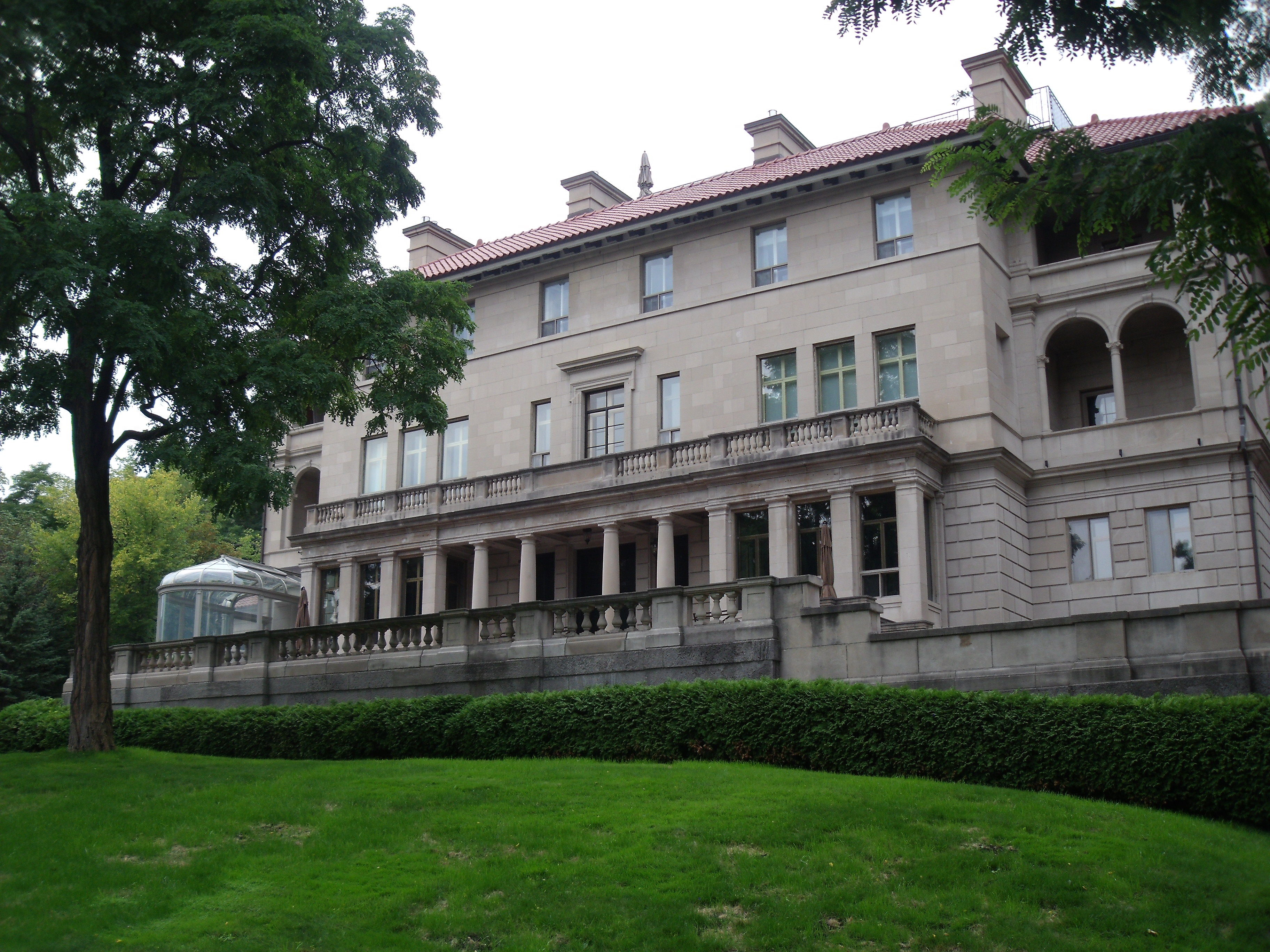 John Wilson McConnell House or Jeffrey Hale Burland House, 1475, Pine Avenue West, Montreal, Quebec, Canada.